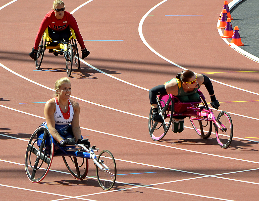 100m Hannah Cockroft 18:06 gold medal 2012 Paralympic 100m gold medal winner at 18:06 - Hannah Cockroft